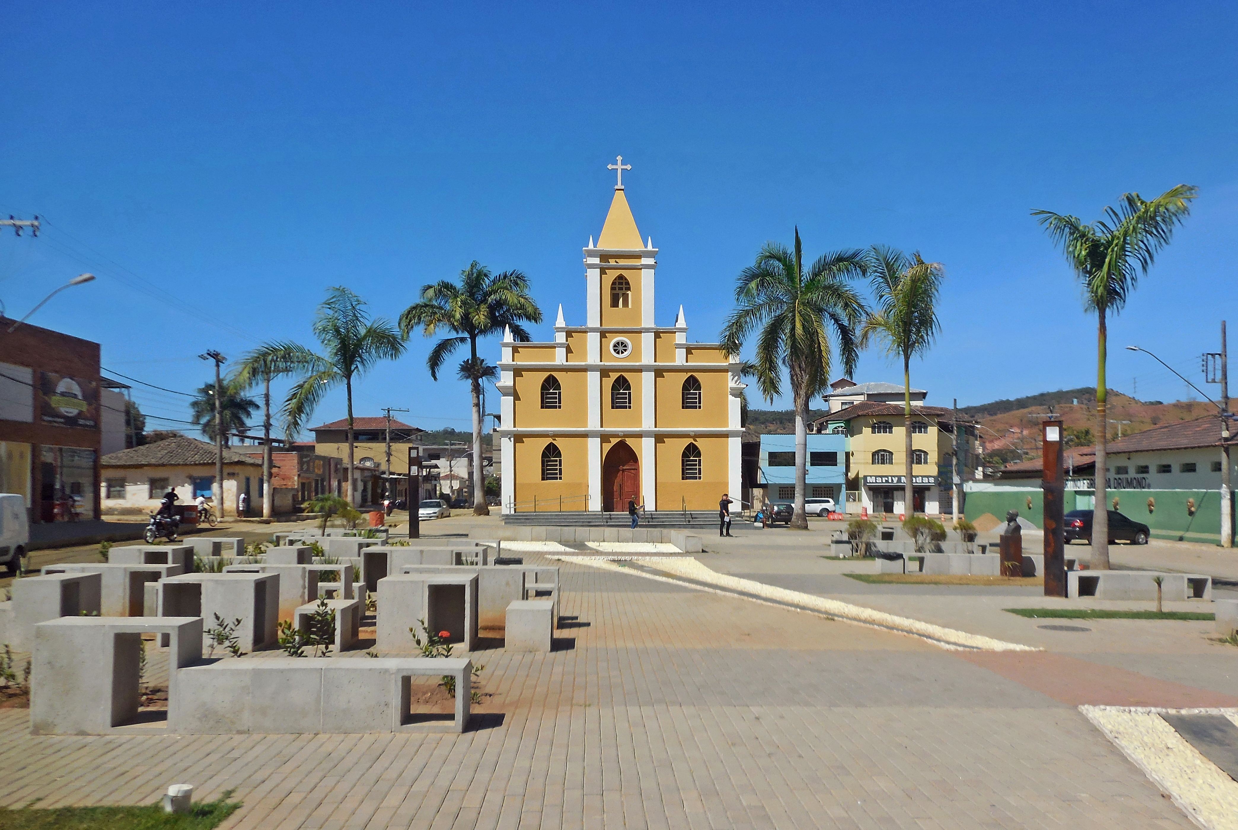 Praça da Matriz e Igreja Matriz de Santana, em Santana do Paraíso, Minas Gerais, Brasil. Cultural property Q67025145, Santana do Paraíso, Minas Gerais, Brazil Q67025145, P727